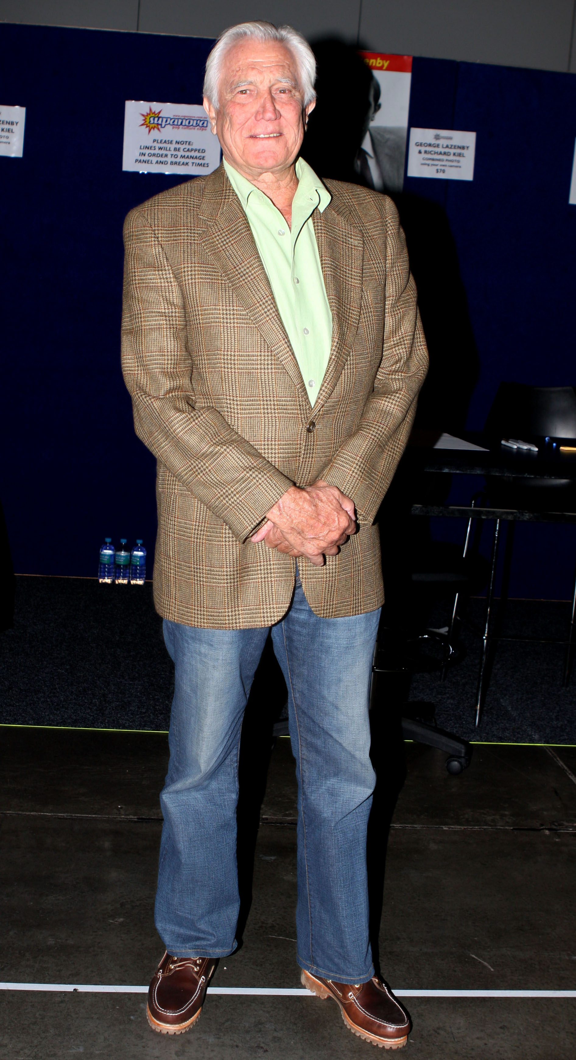 George Lazenby at the 2014 Supanova Pop Culture Expo